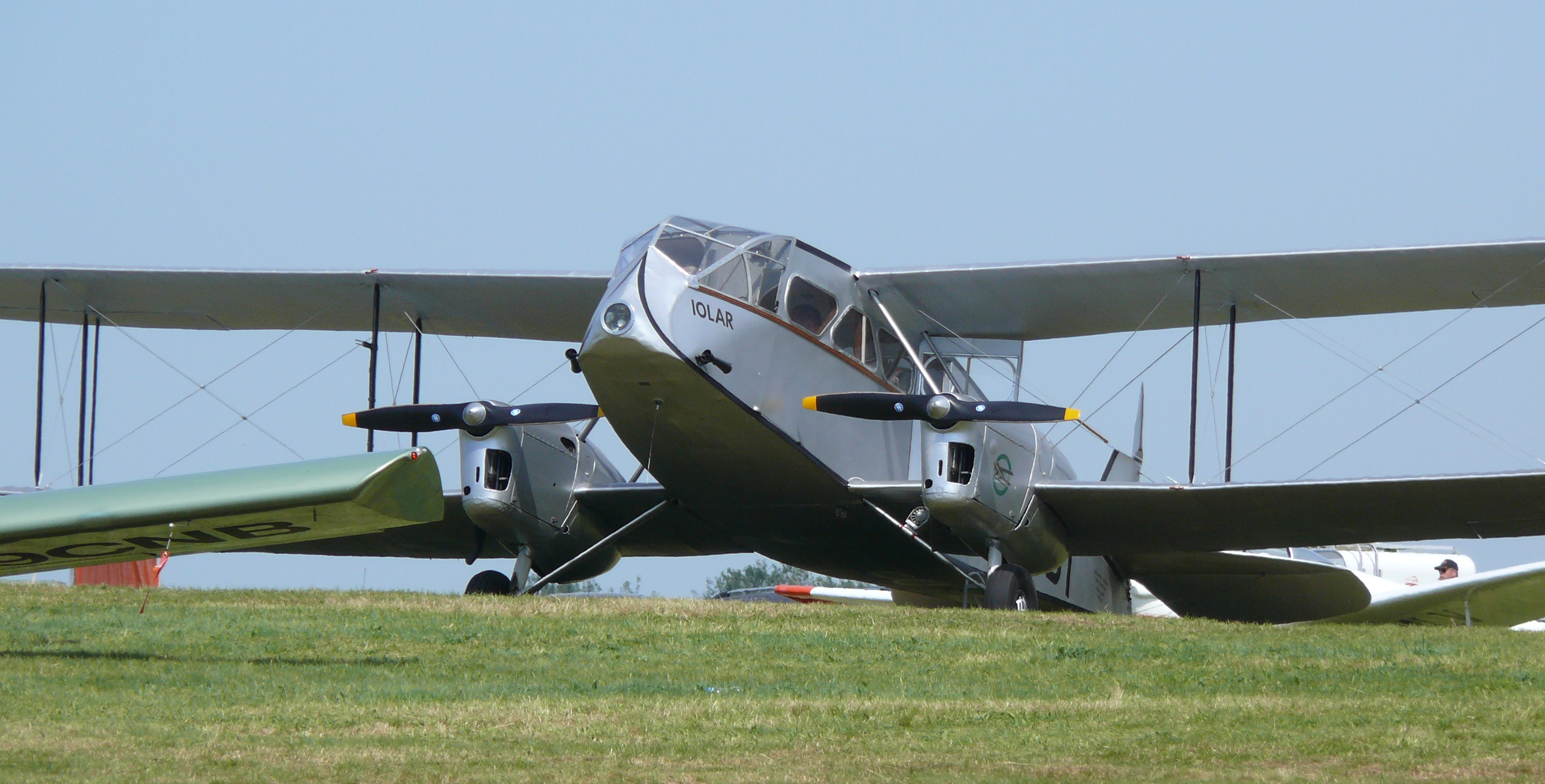 Aer Lingus (Aer Lingus Charitable Foundation) EI-ABI (cn 6105) De Havilland DH-84 Dragon 2 at Schaffen Fly and Drive In 2012.